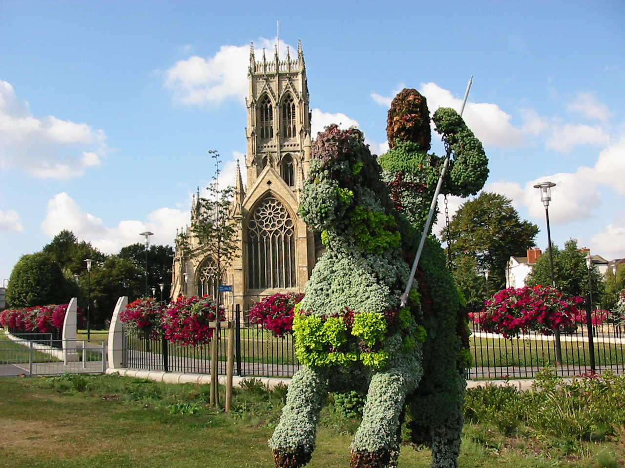 Saint George's Minster, Doncaster. Floral arrangement.